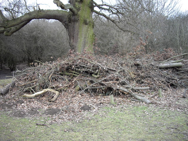 Pruning waste under old oak at edge of Collin's Coppice